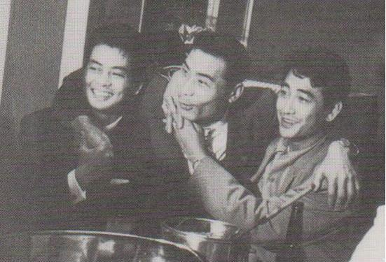 From left to right, Ono Mitsuru, Taoka Kazuo, Tsuruta Koji, with their arms around each other's shoulders.